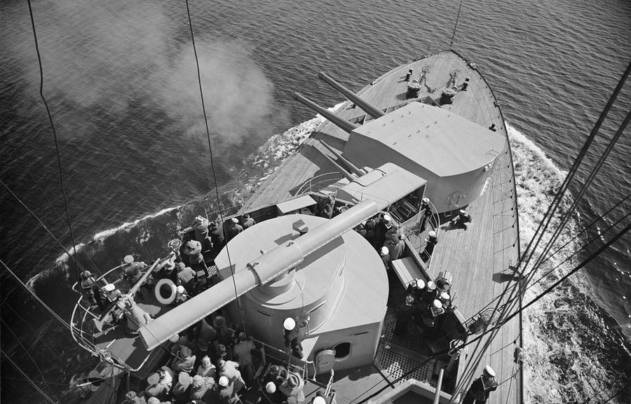 The turret of the coastal defence ship Väinämöinen is turned ready for fire. In the foreground the rangefinder's pipe.